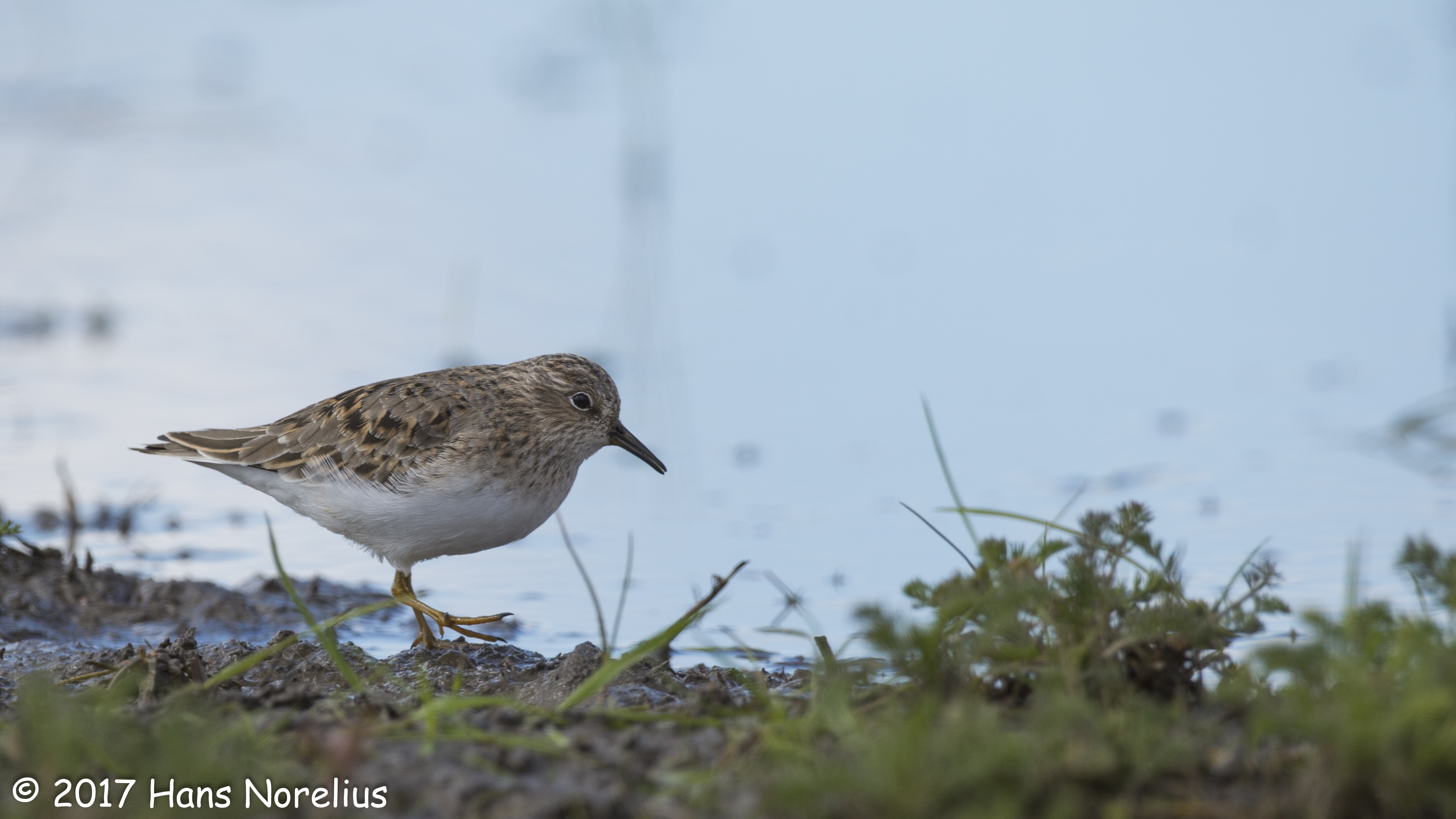 Temminck's Stint, Calidris temminckii